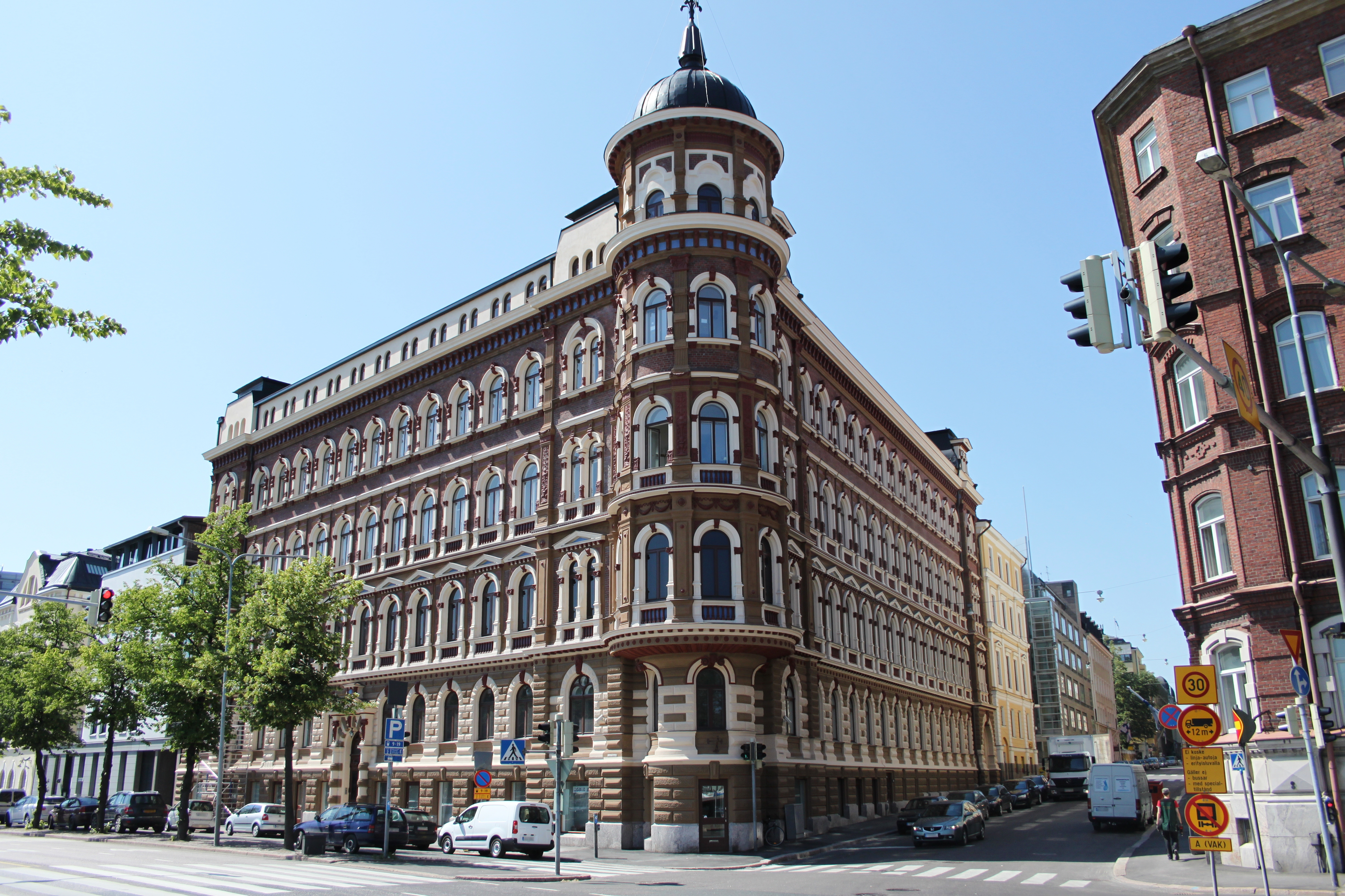 Standertskjöld's house, Pohjoisranta 4, Helsinki. Architect: Theodor Höijer, Built 1885